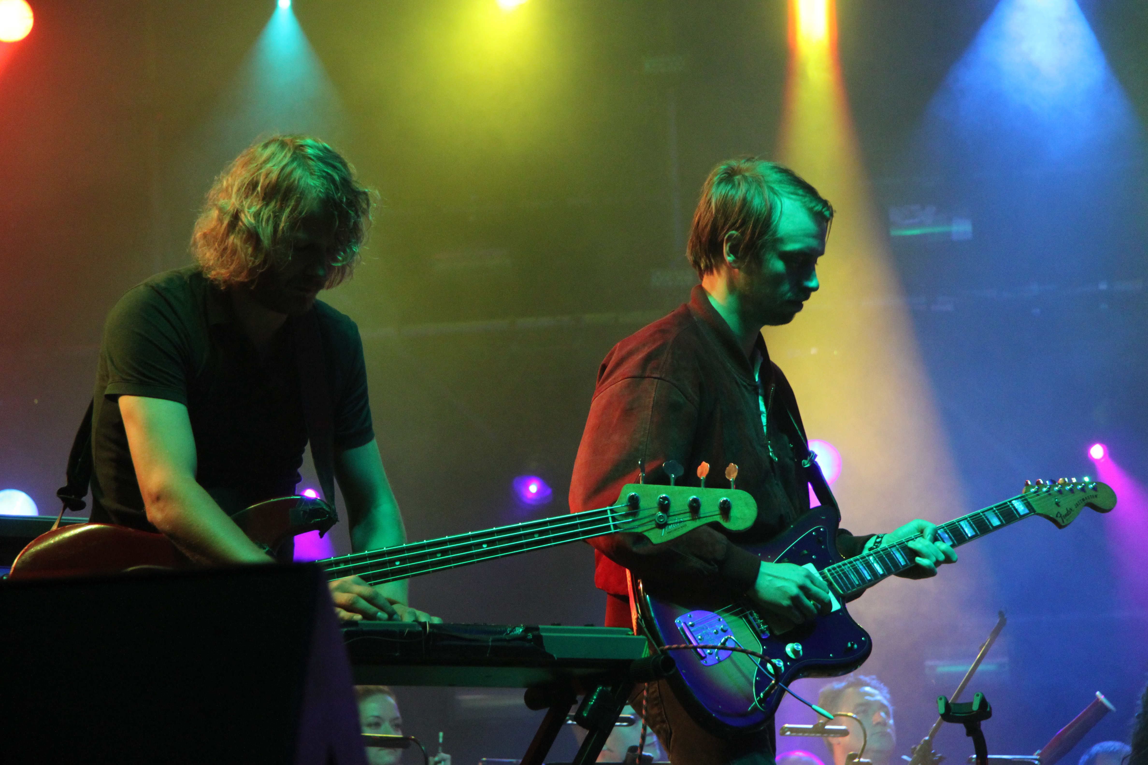 Even Ormestad (bass) and Marcus Forsgren (guitar) of the Norwegian jazz band Jaga Jazzist during Tauron Nowa Muzyka 2014 festival.